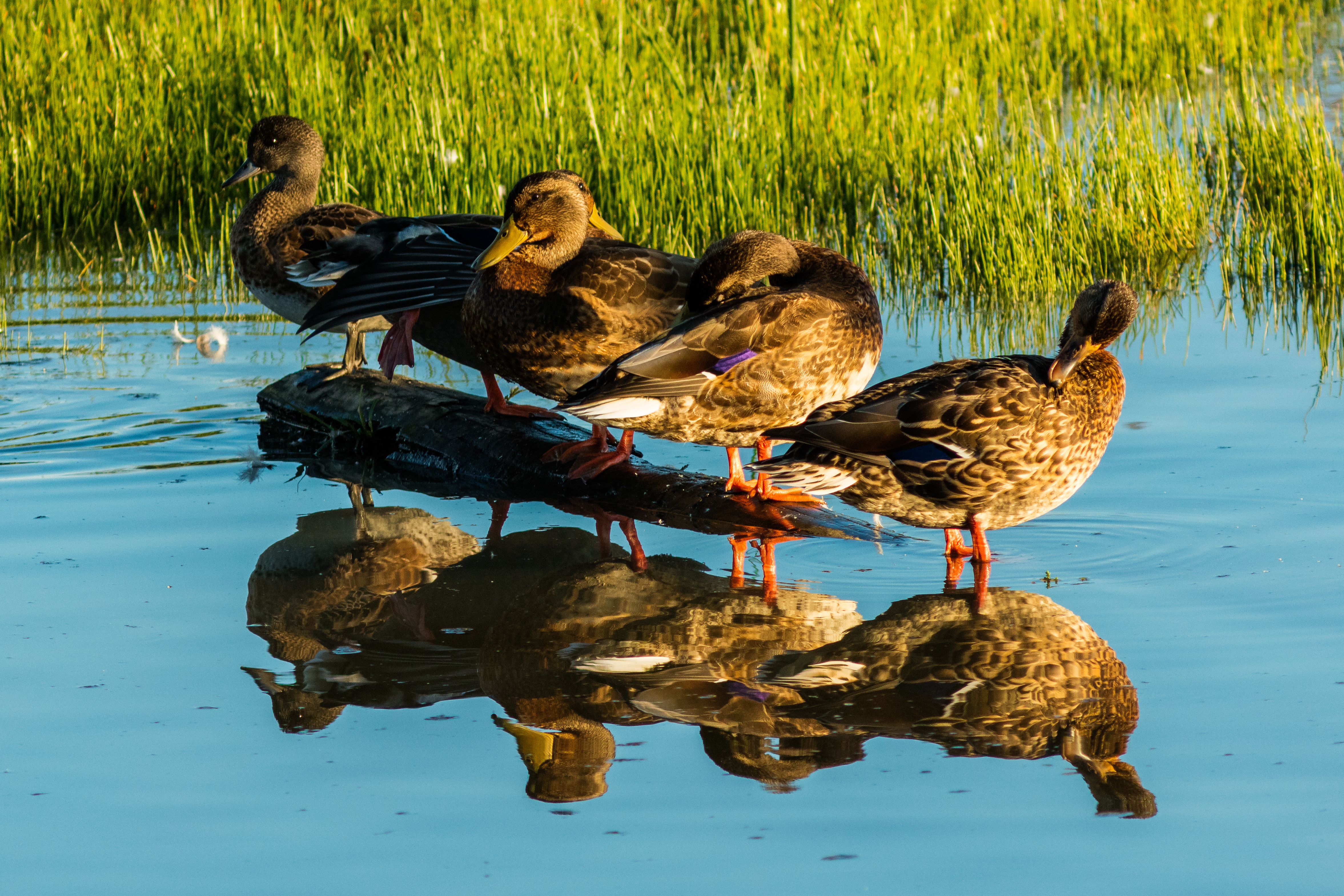 Mallards Anas platyrhynchos, Potter marsh, Alaska, United States